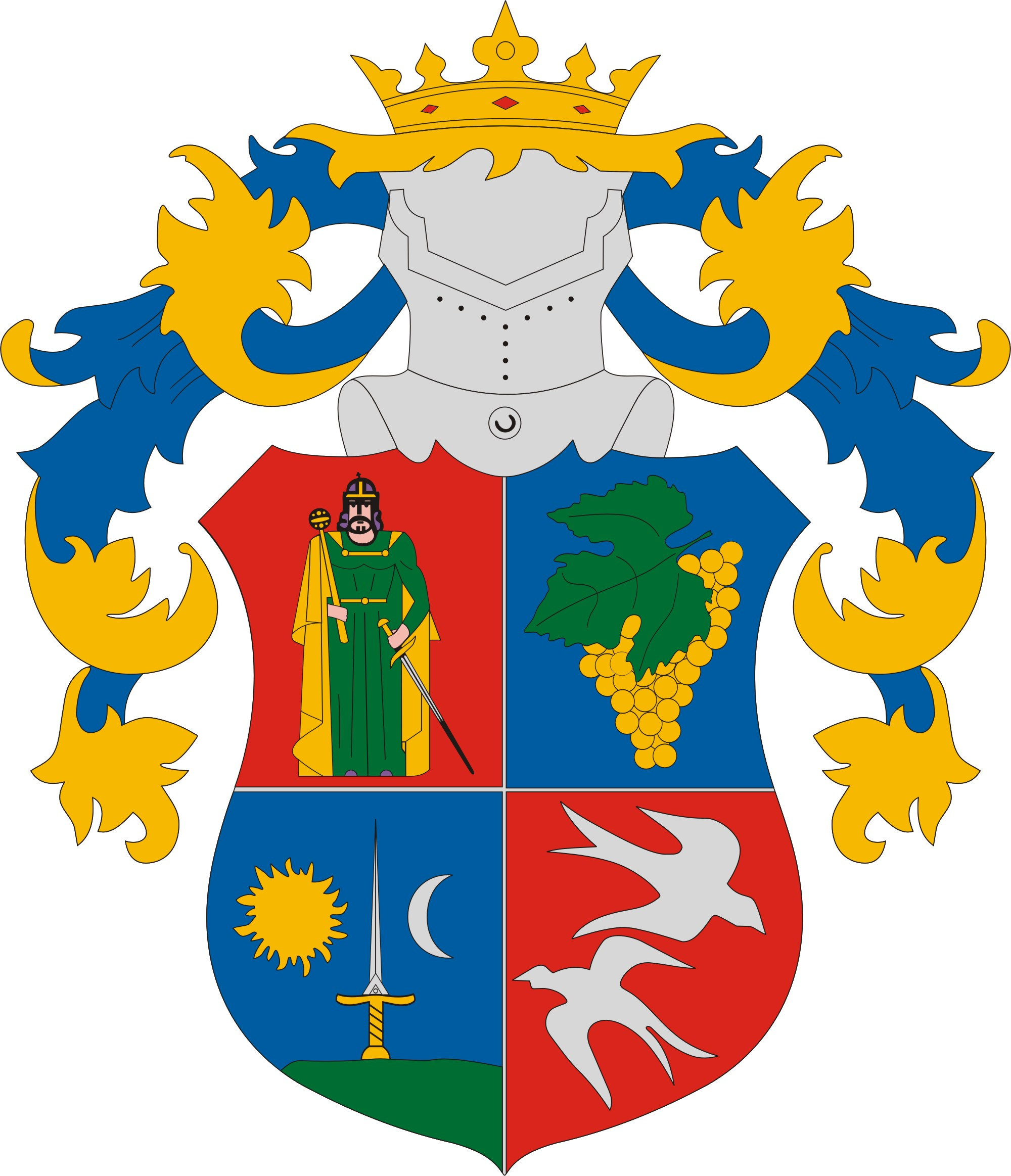 Coat of arms of Csátalja, Hungary